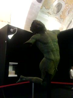 Dancing Satyr of Mazara del Vallo. Bronze, 4th century BC or Neo-Attic period. Found in 1997 (leg) and 1998 (torso) off the southwestern coast of Sicily.